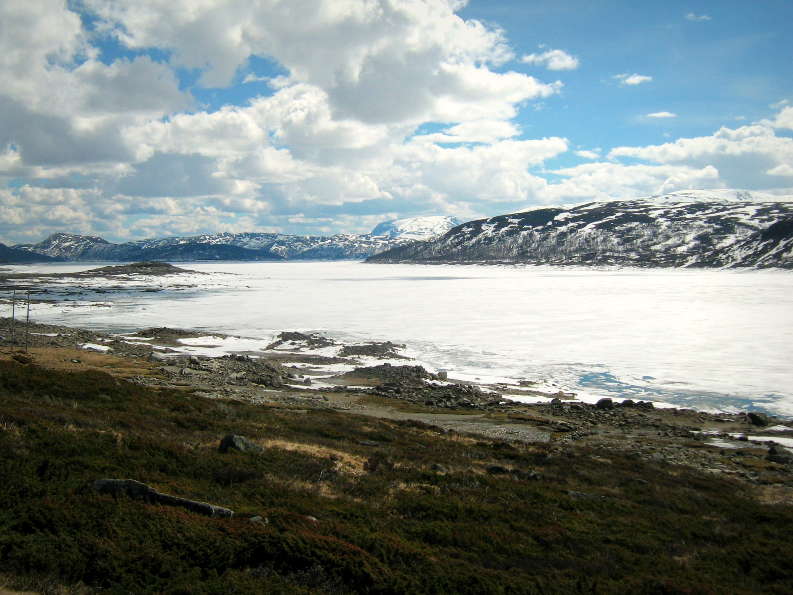 Strandavatnet was frozen even end of May. The view however is as always extraordinary, fascinating, because of the mountains on the background. They belong to National Park Hallingskarvet.